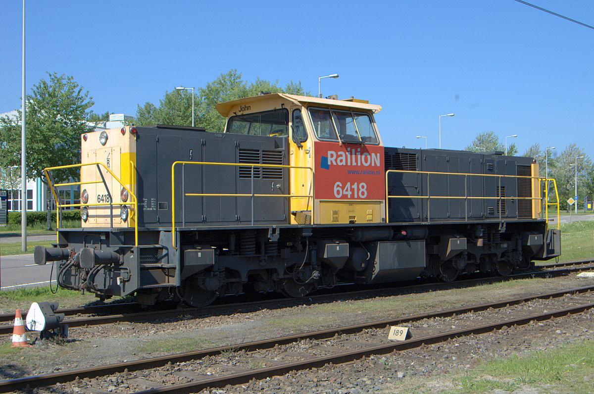 6418,Awhv.